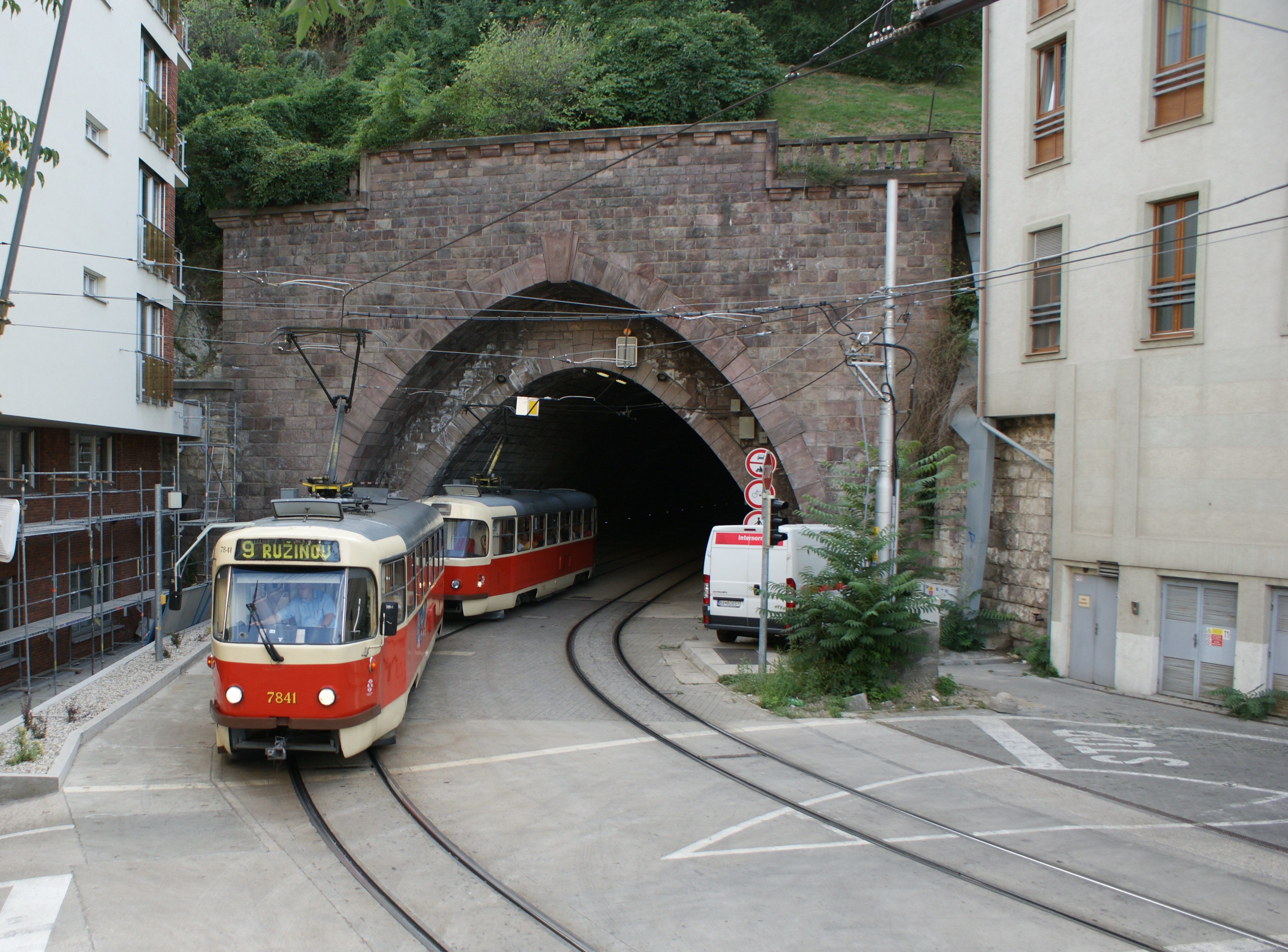 Tatra T3 tram cars 7841 and 7842 in Bratislava, emerging from the tram tunnel. The last delivery of T3 came with single arm pantograph